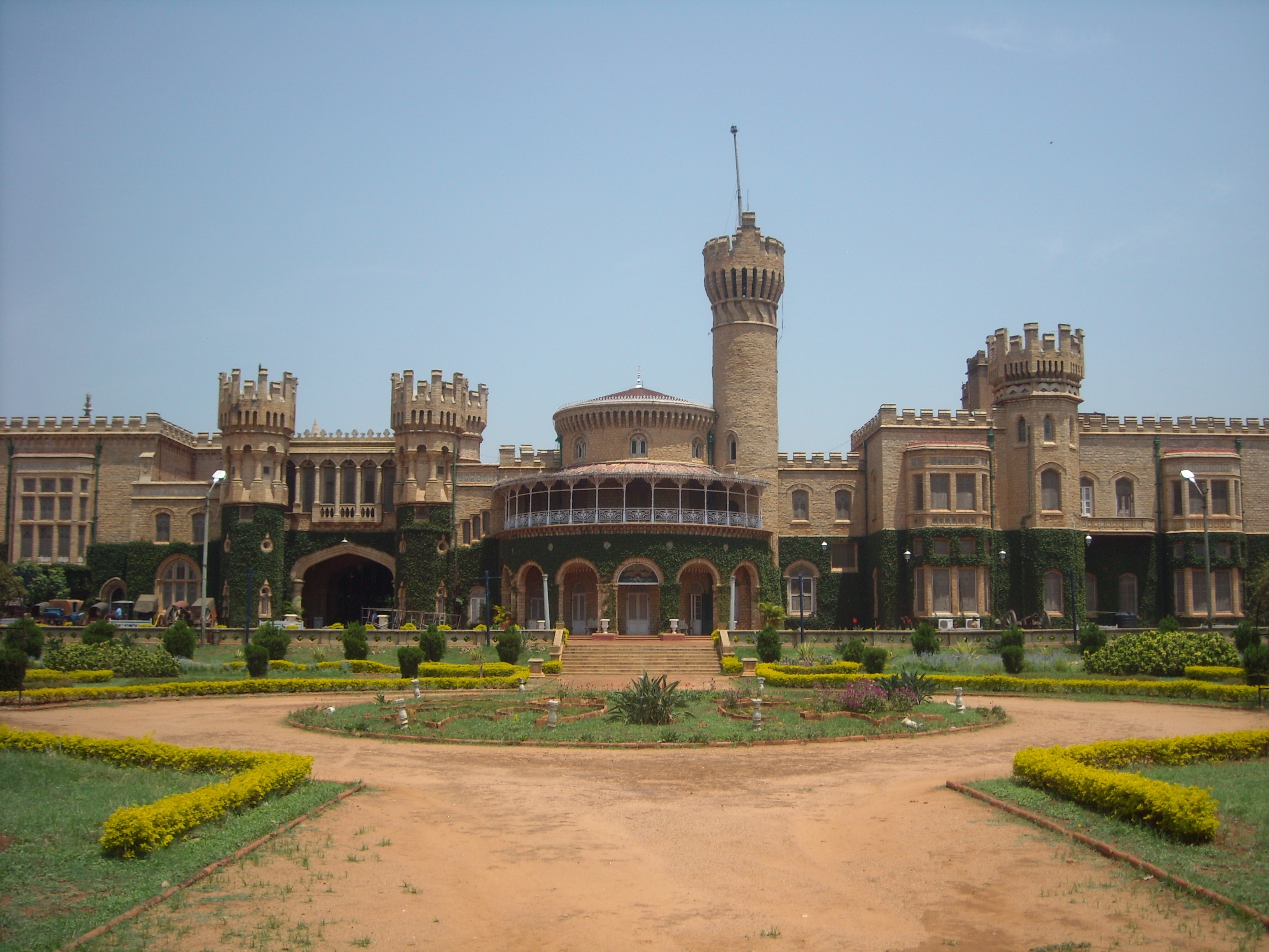 Bangalore Palace, a palace located in the city of Bangalore, India, was built to look like a smaller replica of the Windsor Castle in England.